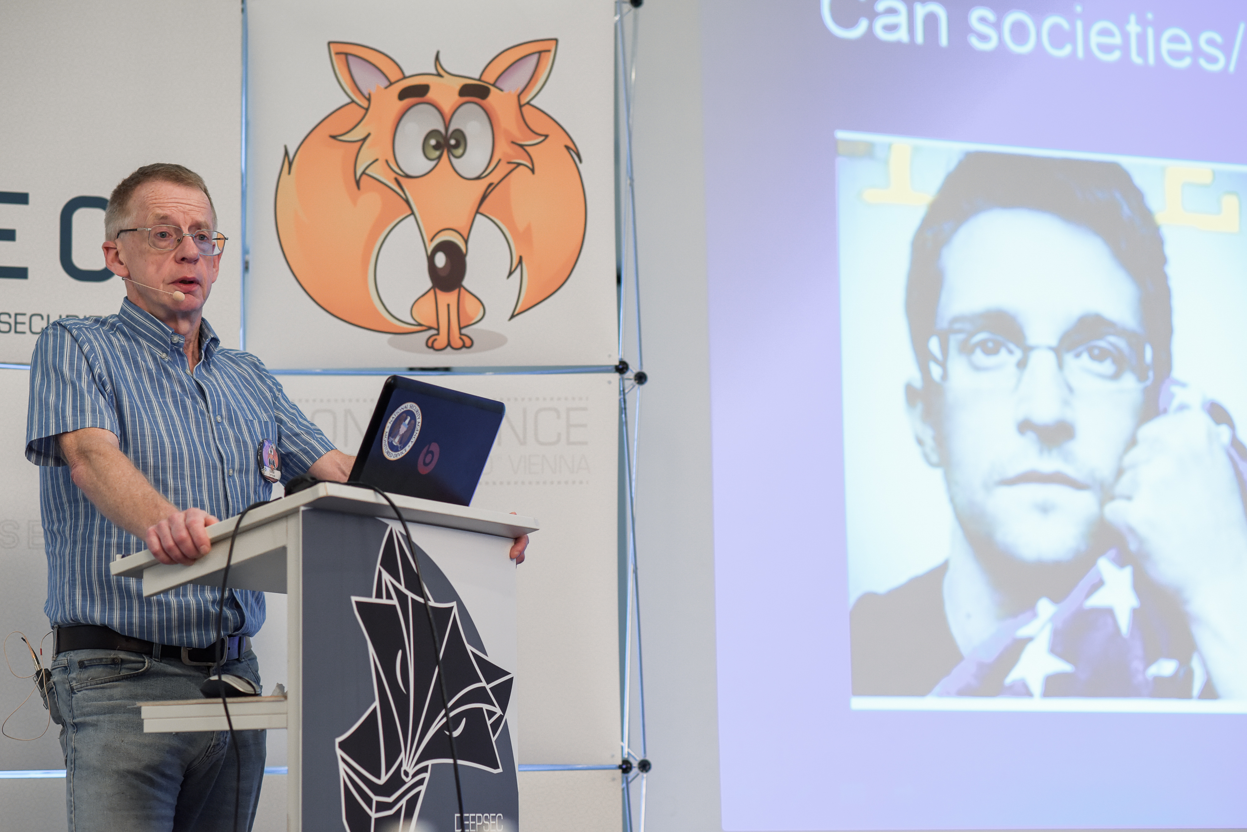 Duncan Campbell at DeepSec In Depth Security Conference 2015 (c) Joanna Pianka